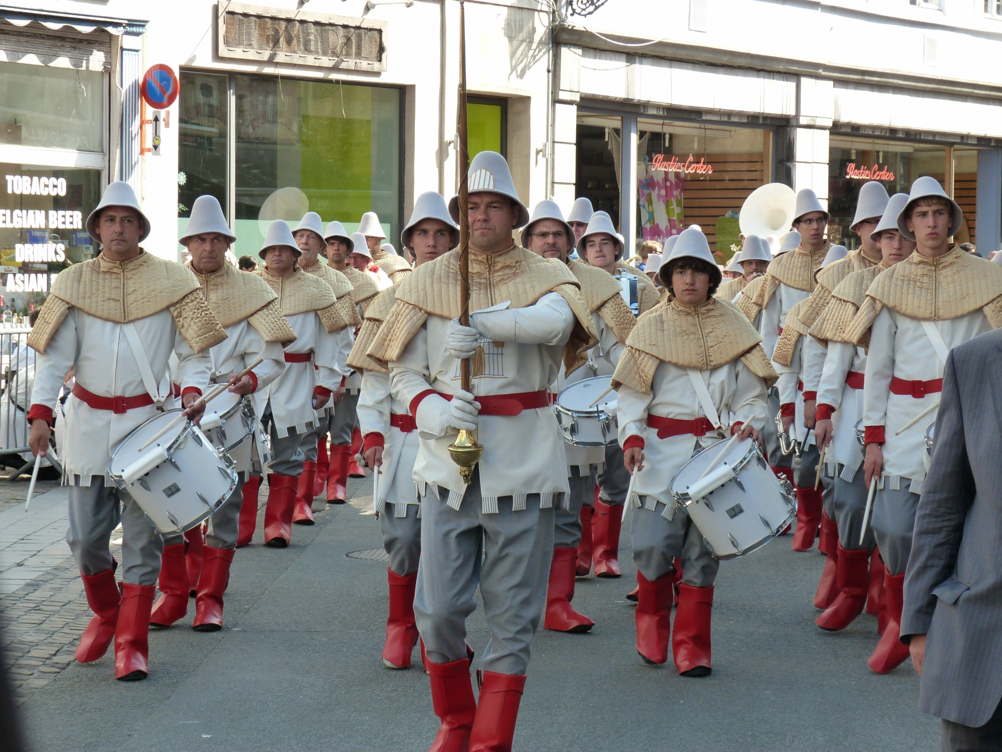 Musicians of the Golden Tree